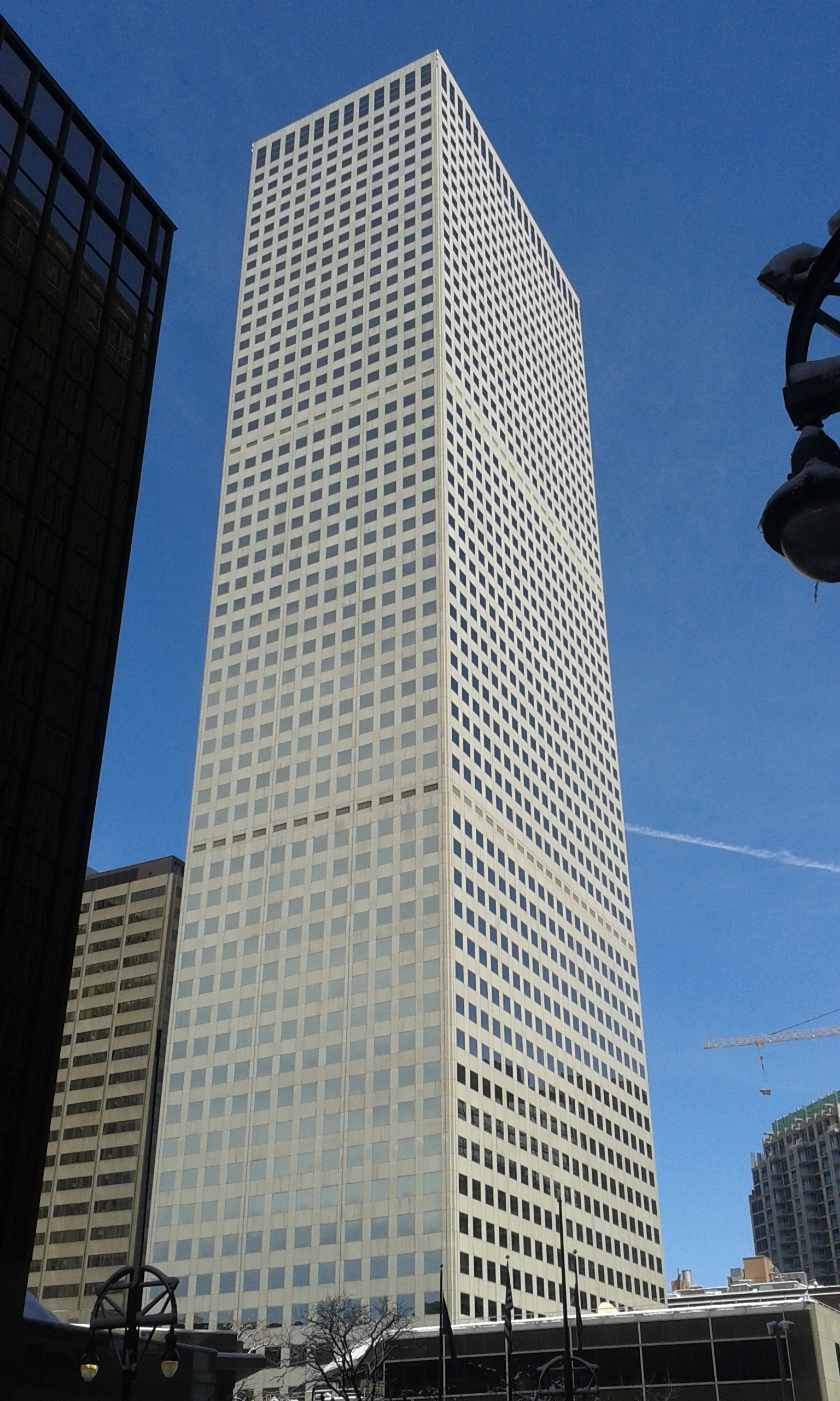 Republic Plaza south corner from Court Pl, Denver, CO